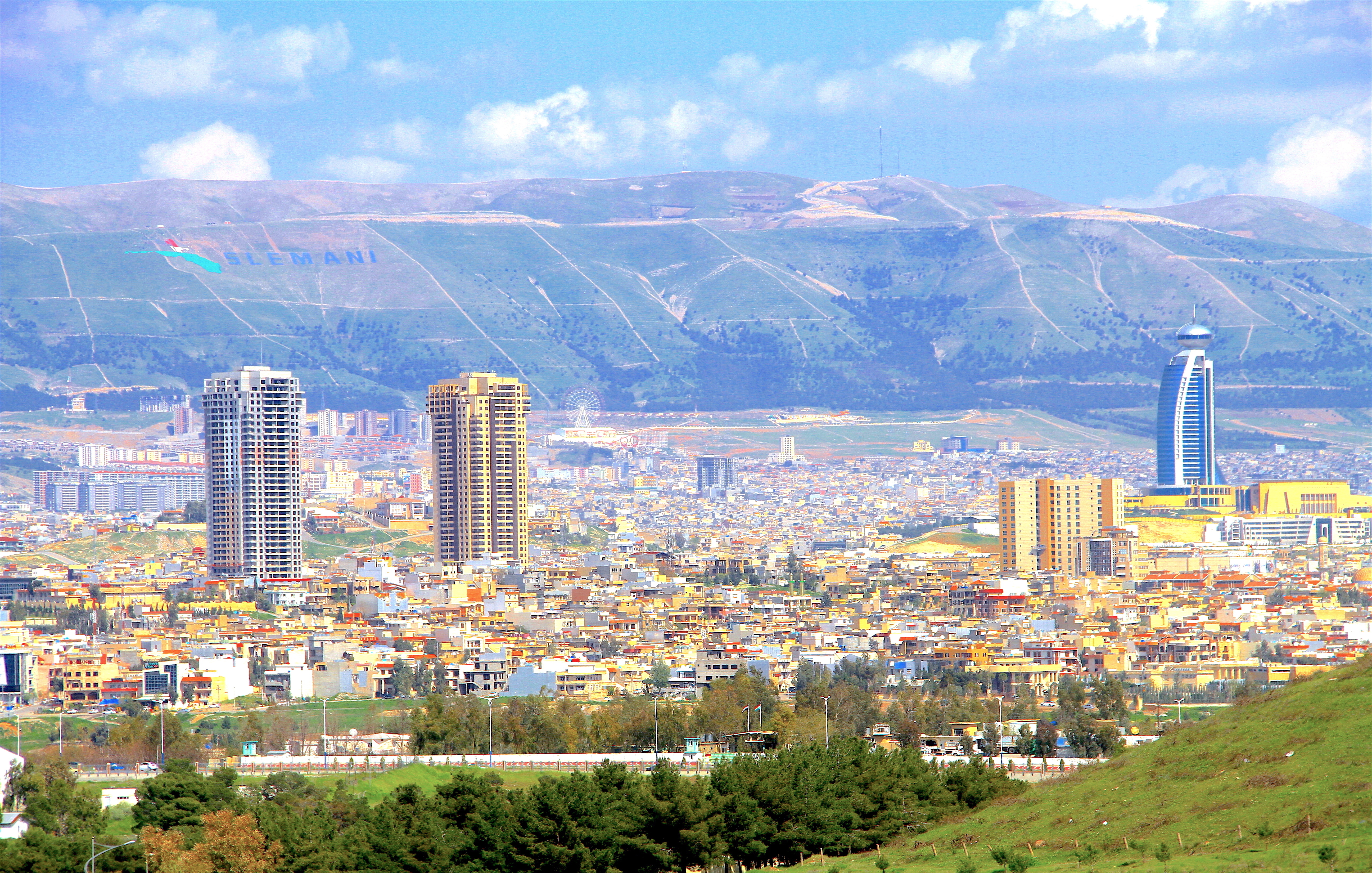 View of Sulaimani - Slemani - City in Southern Kurdistan in Spring 2016 کوردیی ناوەندی: دیمەنی شاری سلێمانی لە باشووری کوردستان لە بەهاری ٢٠١٦